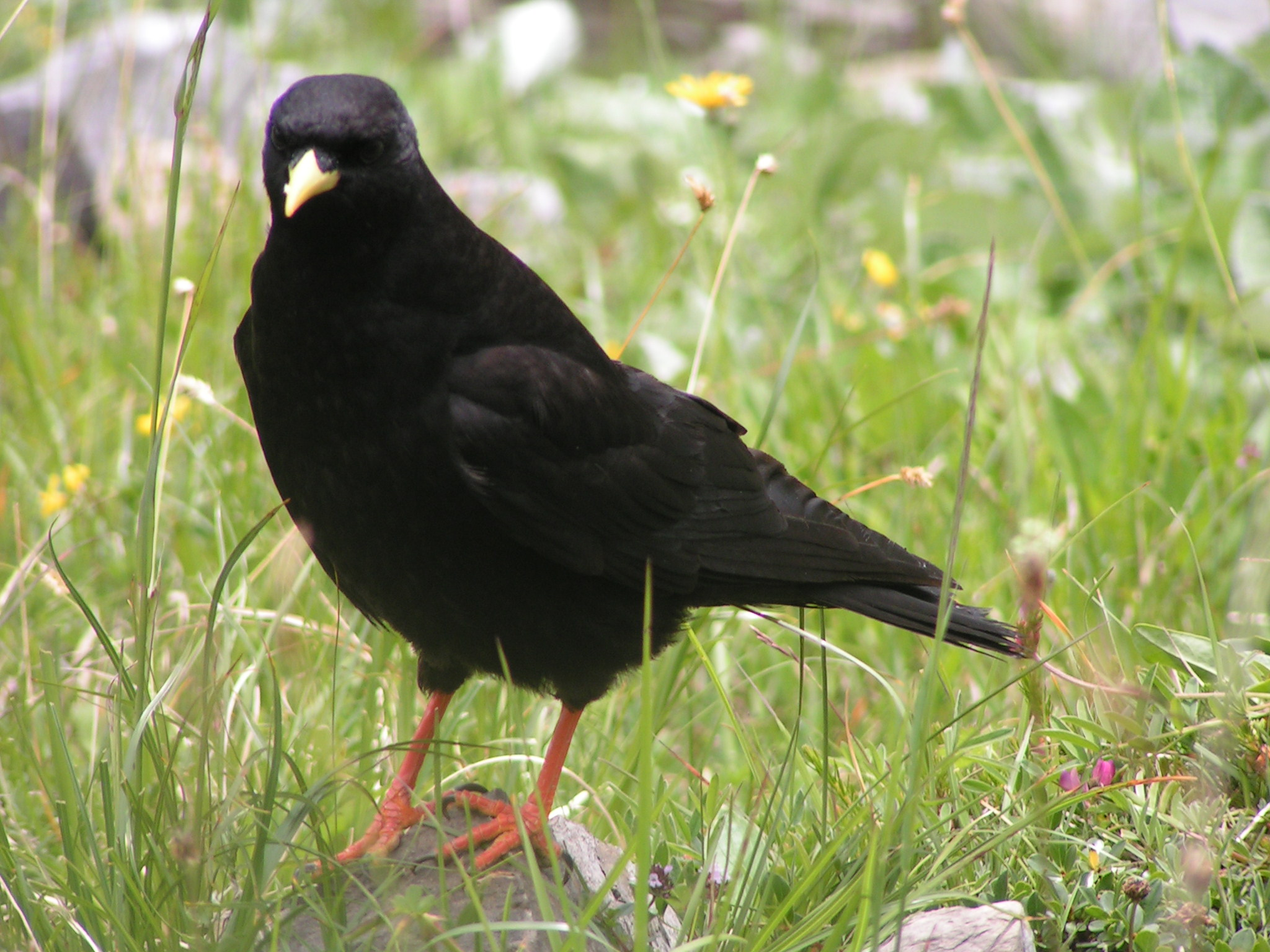 Alpine Chough (Pyrrhocorax graculus) in Switzerland